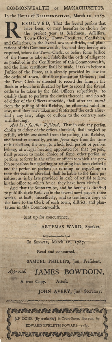 Commonwealth of Massachusetts : In the House of Representatives, March 10, 1787. Resolved, That the several persons that have been, or may hereafter be chosen ... subscribe the oath of alligance as prescribed in the Constitution of this Commonwealth.... Published by Edward E. Powars